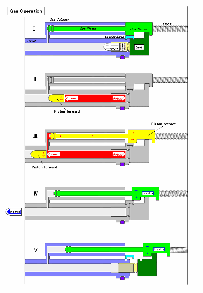 A schematic of the Gas-operation cycle.